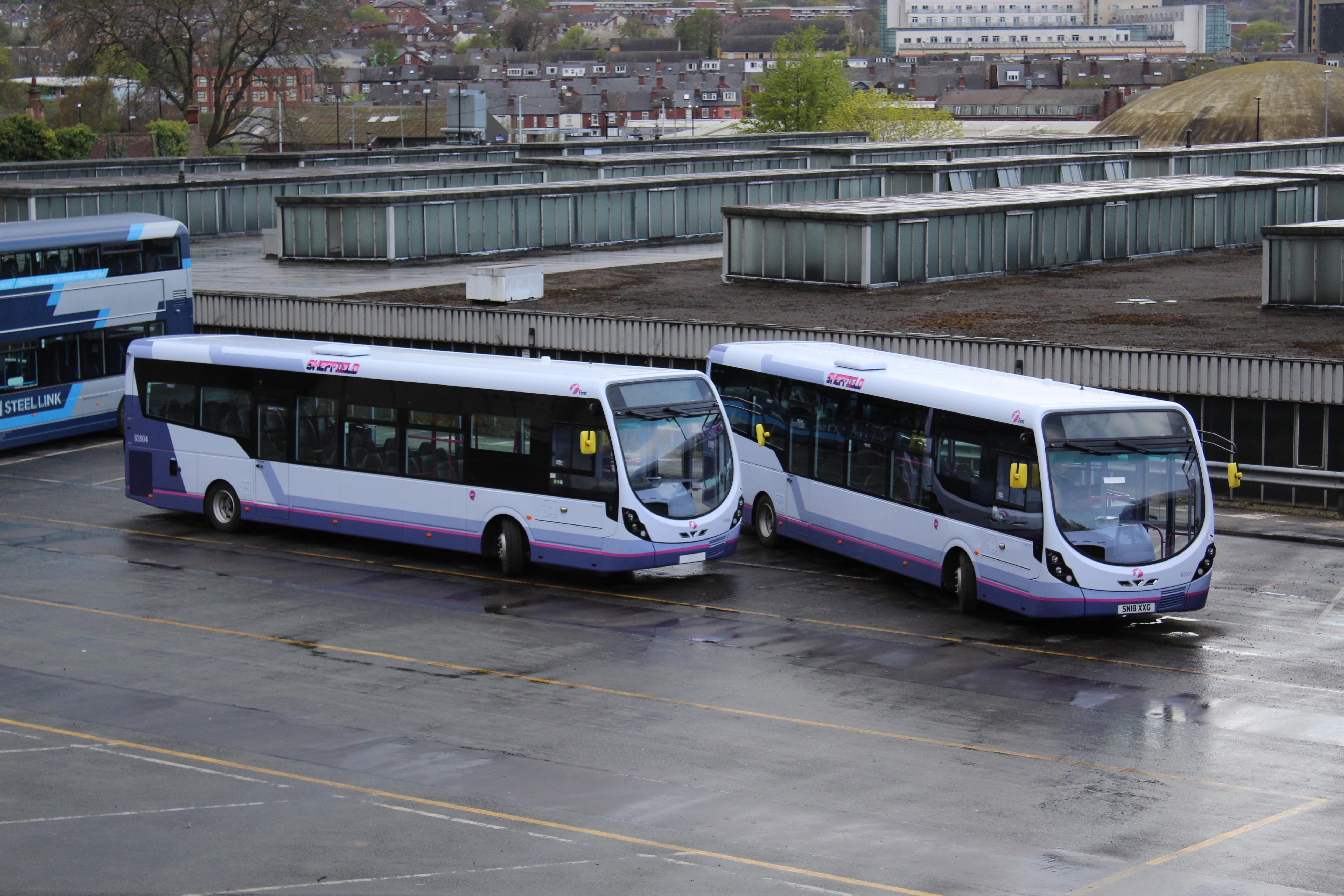 The first two production fully hybrid-electric Wright StreetLite Maxes at First Sheffield's Olive Grove depot prior to entry into service, 26 April 2018.